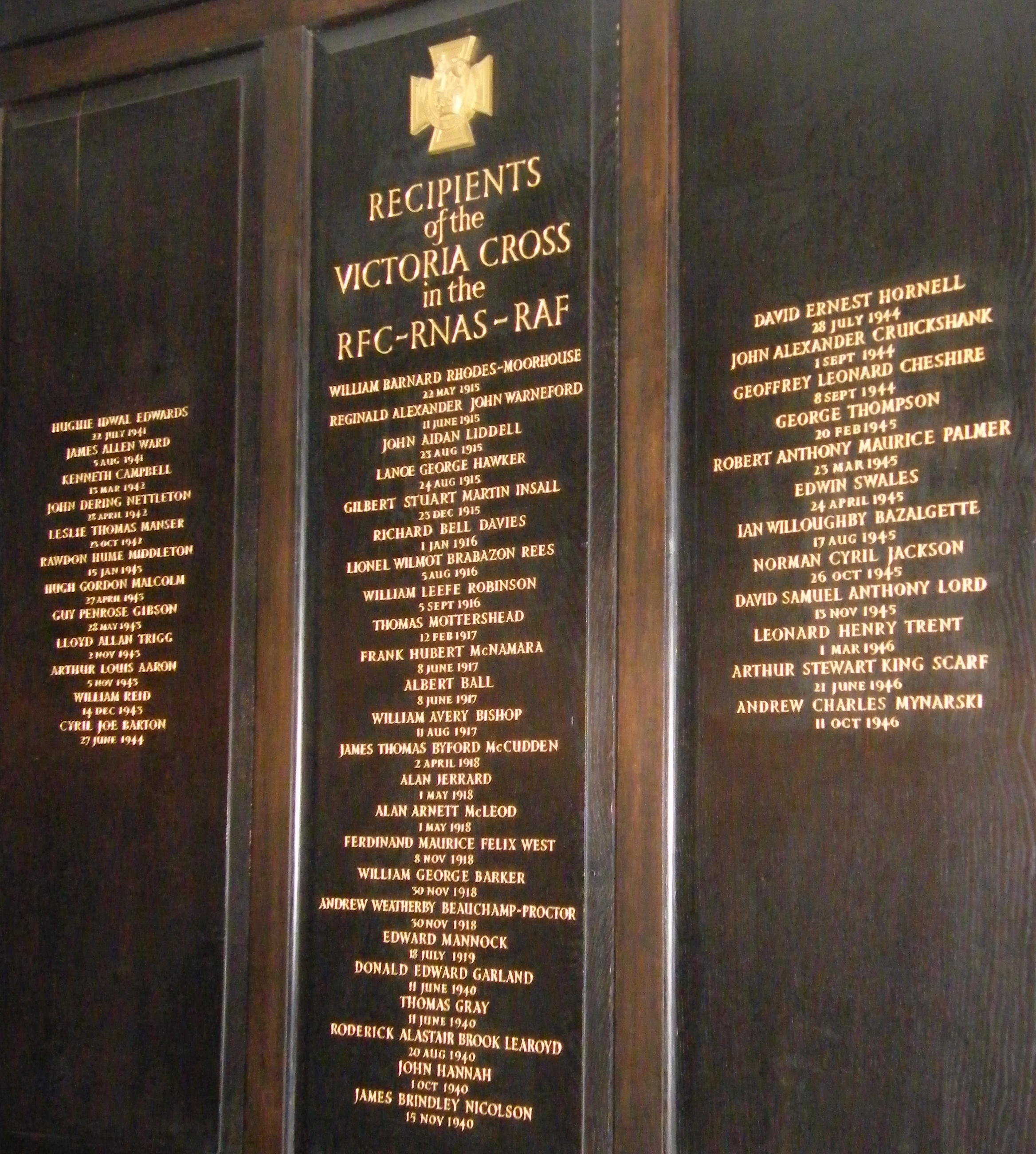 Photograph of the roll of honour of recipients of the Victoria Cross who served in the Royal Flying Corps, Royal Naval Air Service and Royal Air Force as seen in St. Clement Danes, the central church of the RAF.